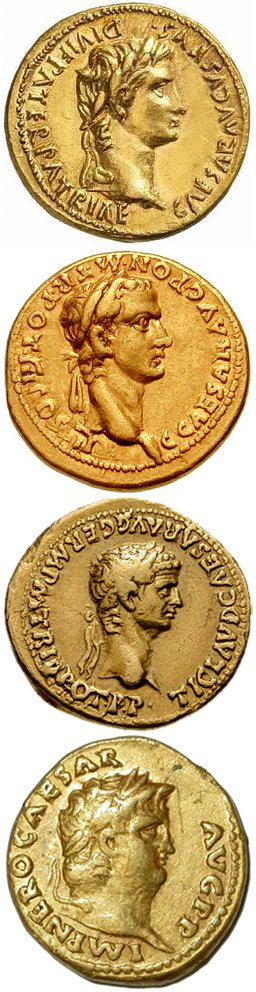 Augustus AV Aureus. Rome mint, 13-14 AD. Obv: CAESAR AVGVSTVS DIVI F PATER PATRIAE, laureate head right Rev: AVG F TR POT XV, TI CAESAR below, Tiberius riding quadriga right, holding eagle tipped scepter. RIC 221, BMC 511, BN 1685, C 299 GAIUS (CALIGULA), with GERMANICUS. 37-41 AD. :AV Aureus (7.72 gm). Struck 40 AD. :::Laureate head of Caligula right :::Bare head of Germanicus right. :RIC I 25; Cohen 6. Claudius and Agrippina Minor. AD 50/54. Roman Aureus. RIC 80. Front shows head of Agrippina the Younger, reverse head of Claudius. An aureus of Nero